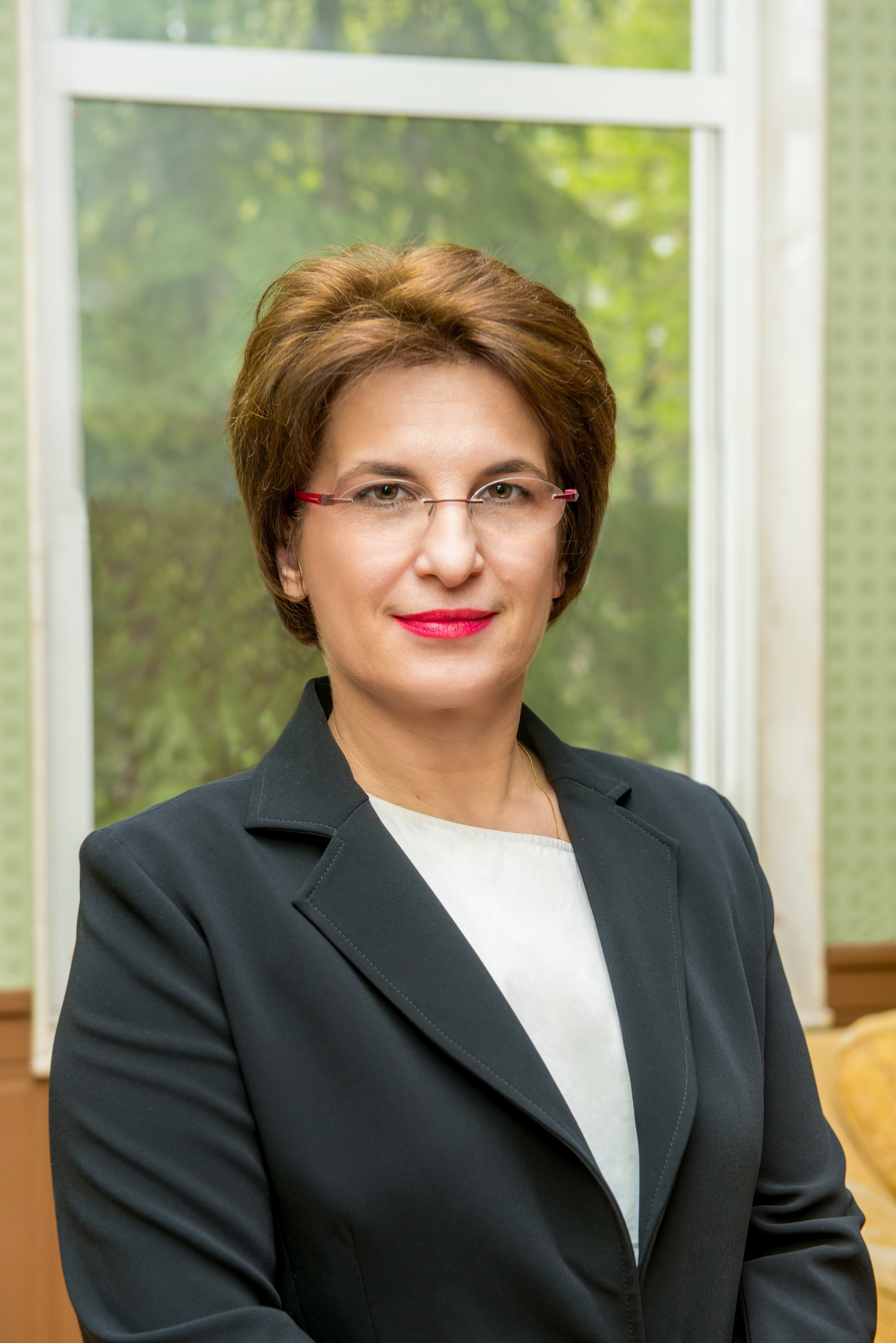 Milena Harito Minister of State, Ministry of Innovation and Public Administration Albania in her office in Tirana, Albania.